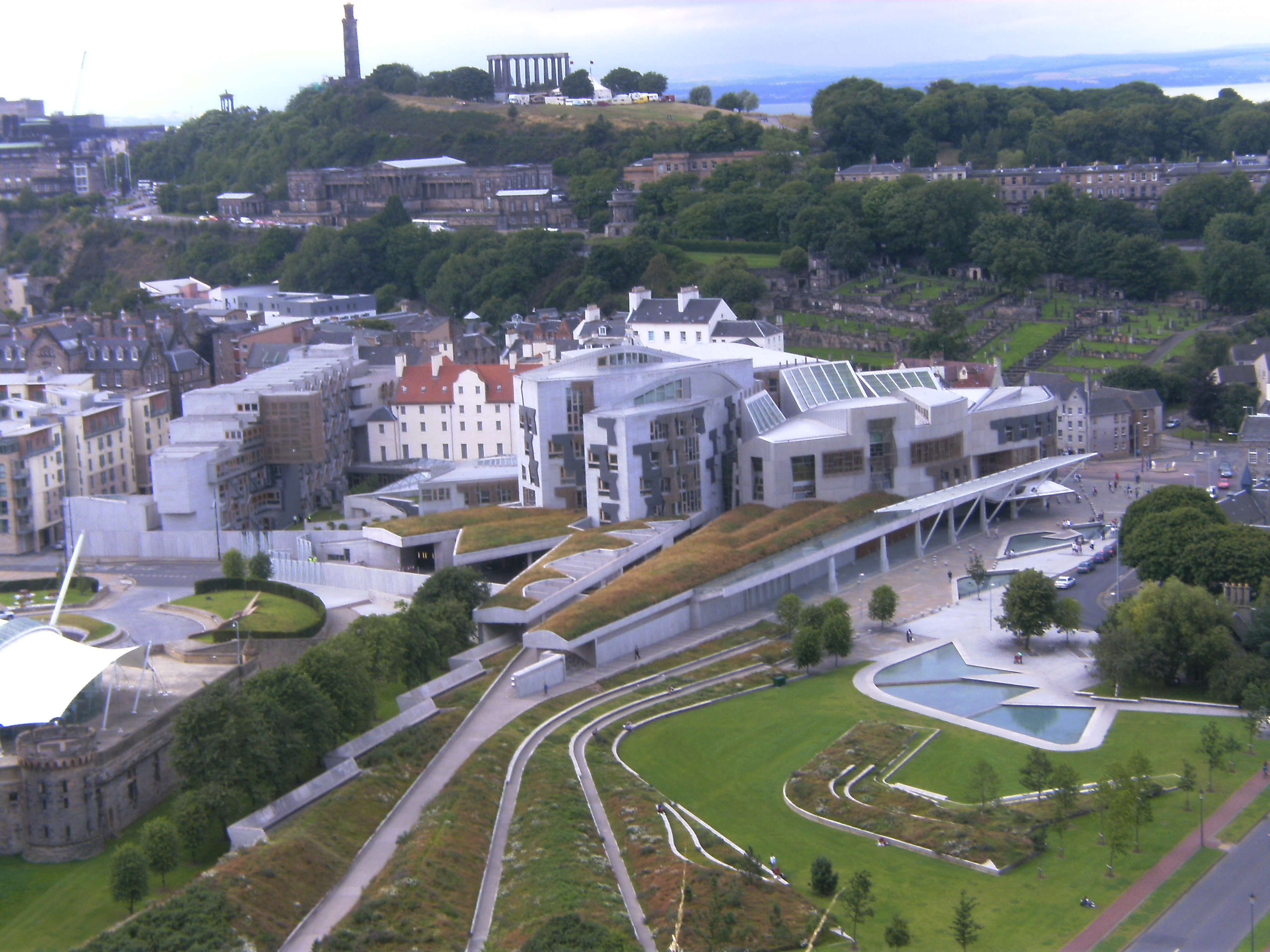 Scottish Parliament as seen from Arthur's Seat